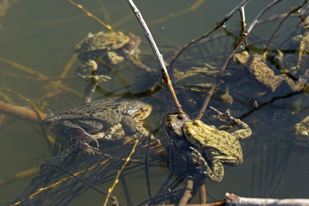 Bufo bufo, reproduction. Notice also the male Grass Frog (Rana temporaria) on the left, in amplexus with a female toad!